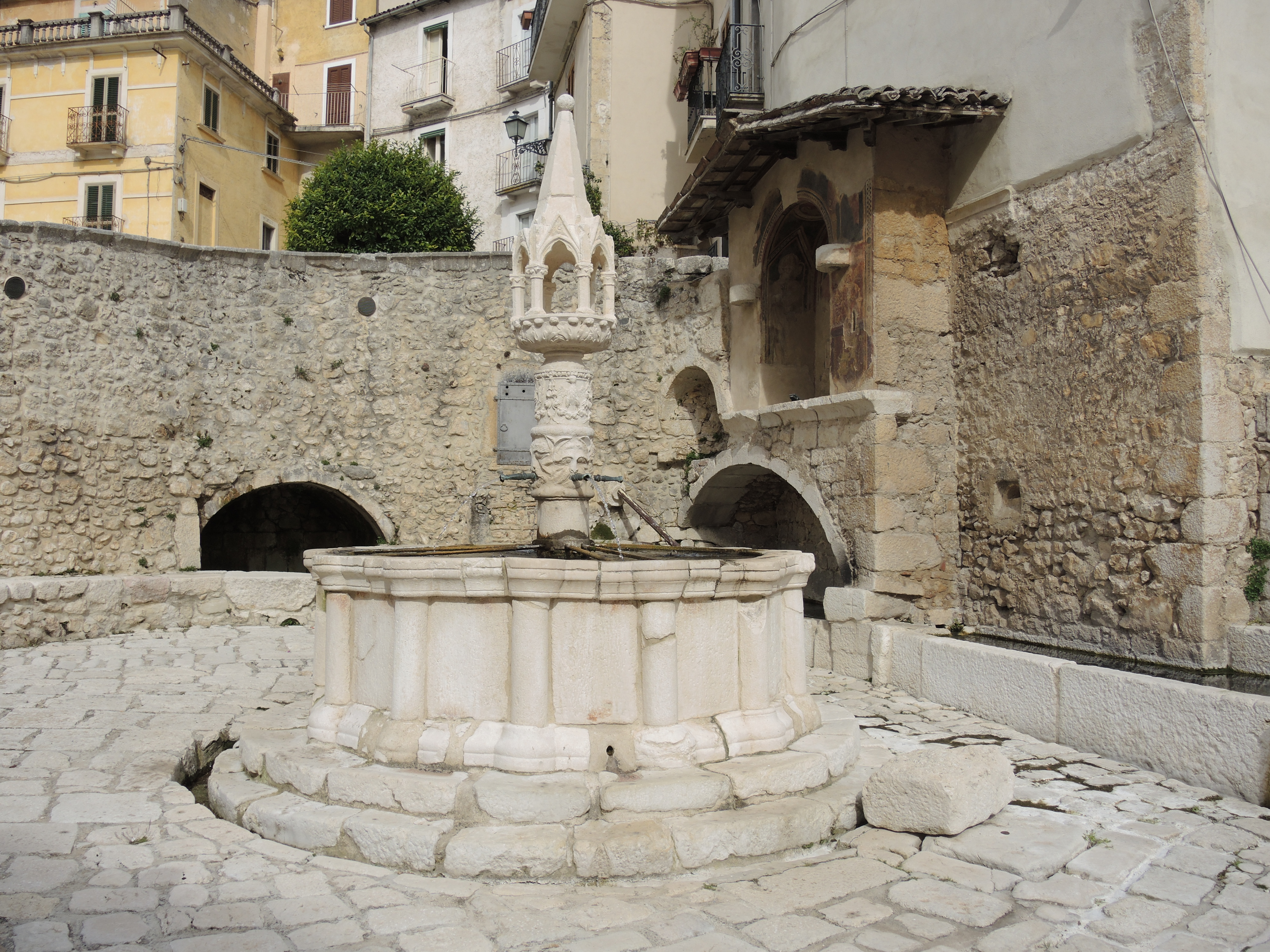 Fontecchio: fountain